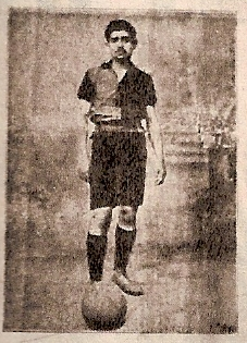 Hasan Basri (Bütün), player of Galatasaray SK, September 1910.